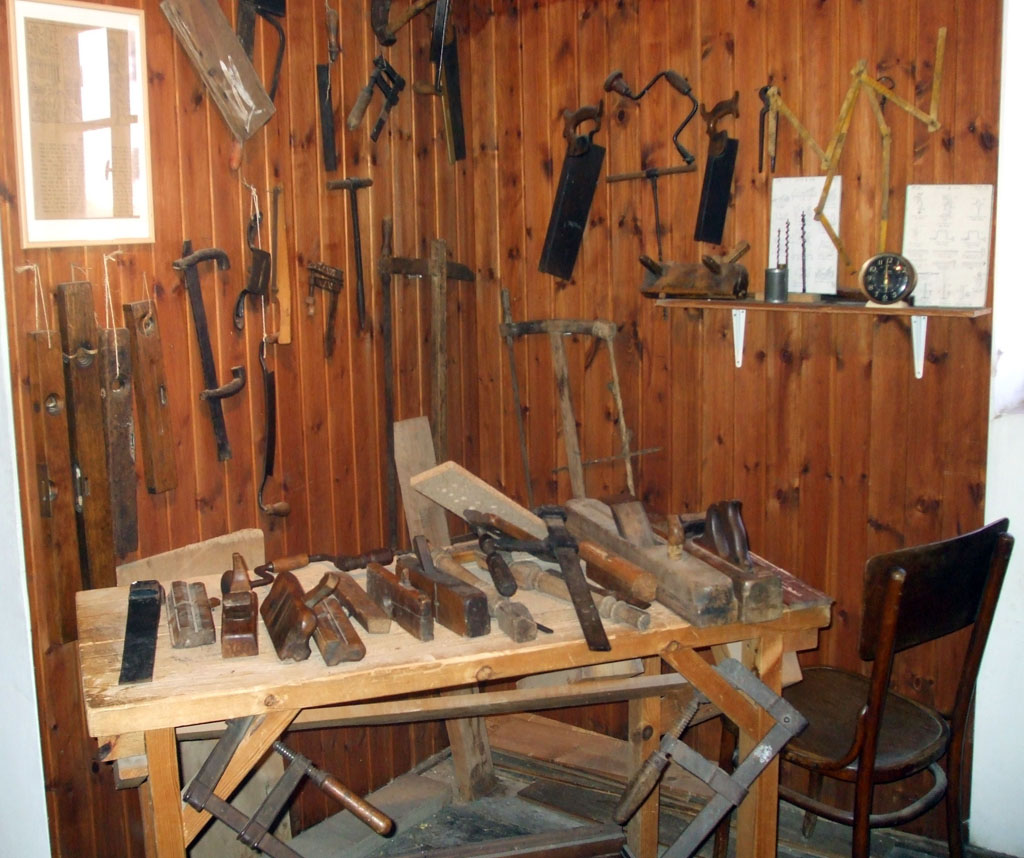 Carpentry hand tools